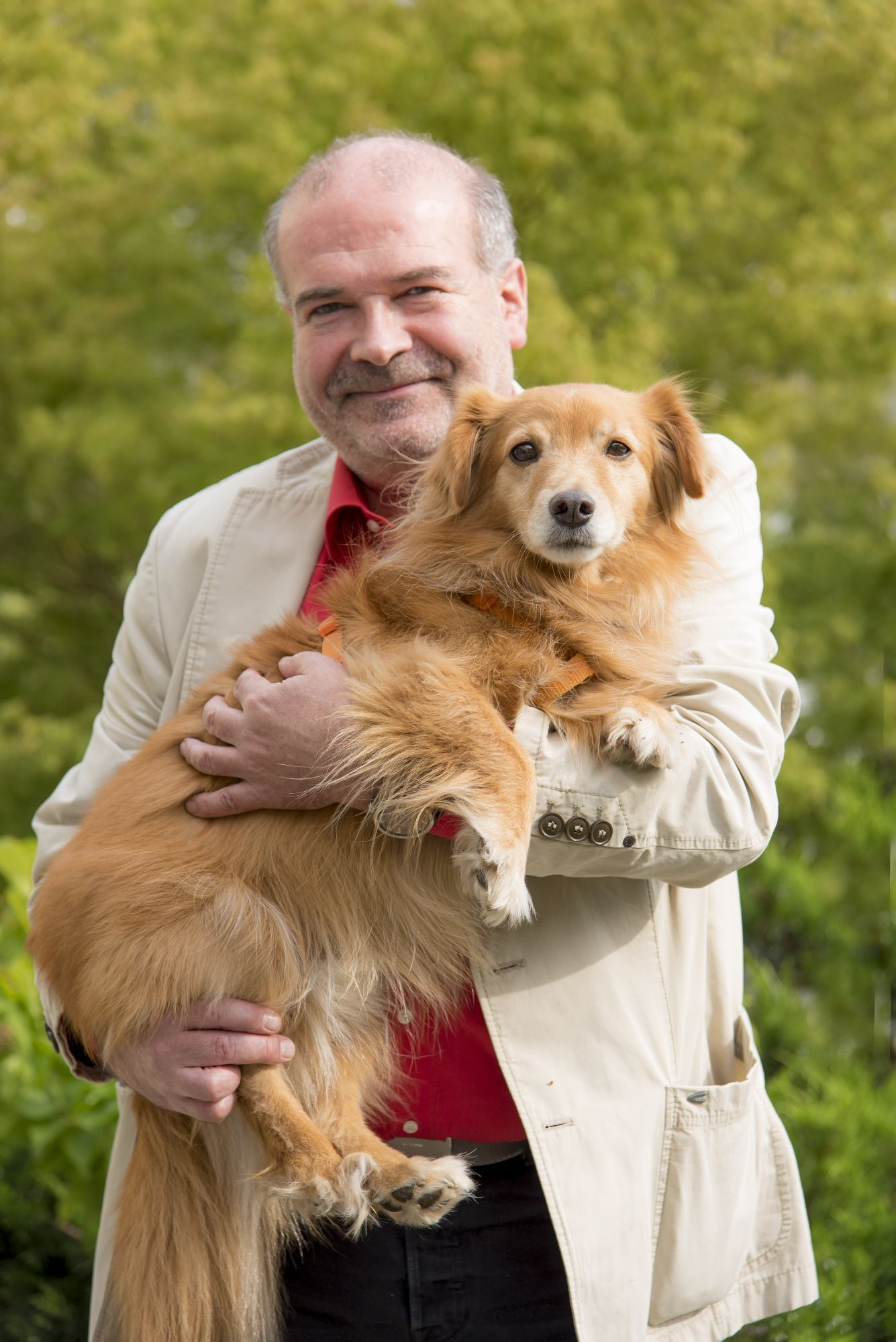 Austria, Vienna | 2019 07 08 | FOUR PAWS founder Helmut Dungler saying "Thank You" to all the donors at the Headquarters in Vienna, Austria.